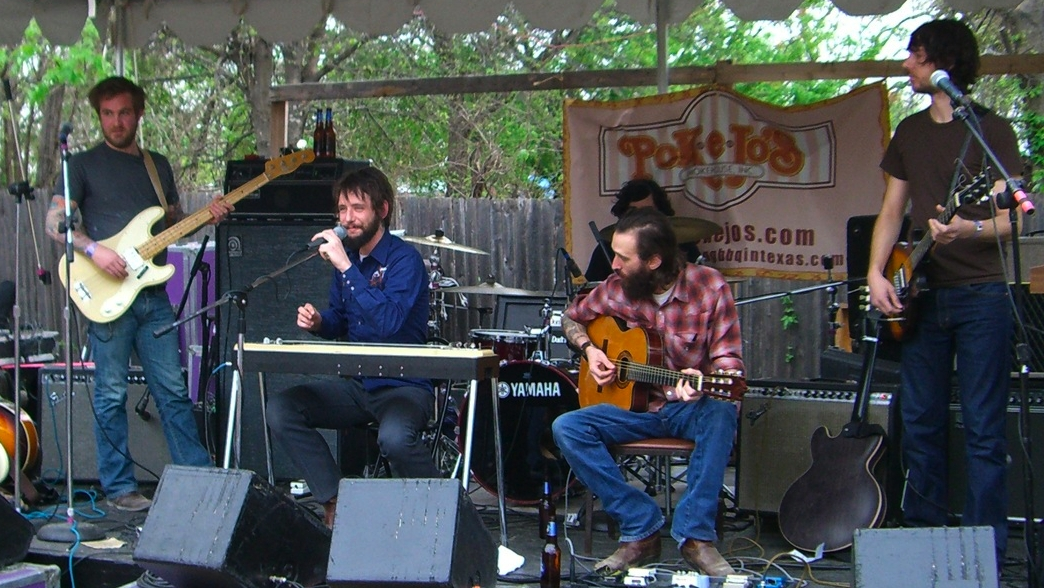 Band of Horses live at SXSW 2006